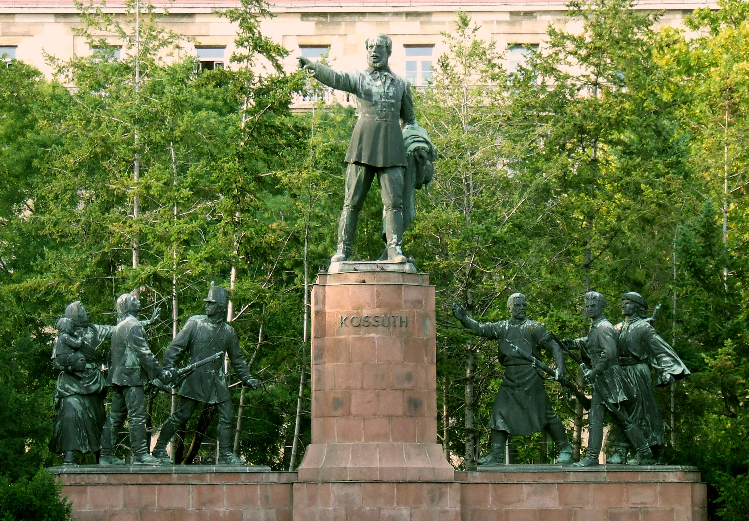 The Monument of Lajos Kossuth, Budapest